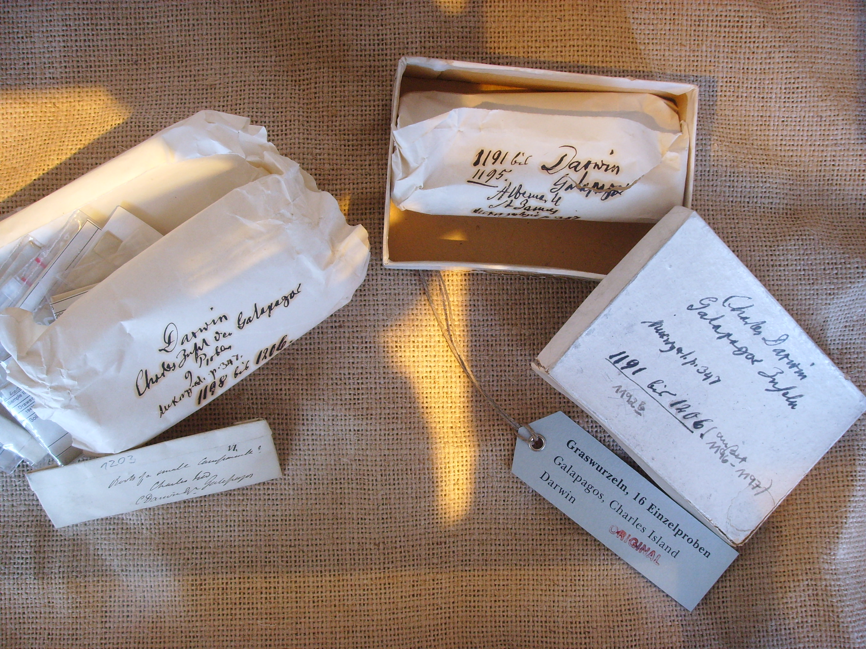 Grass roots from Galapagos, collected by Chales Darwin